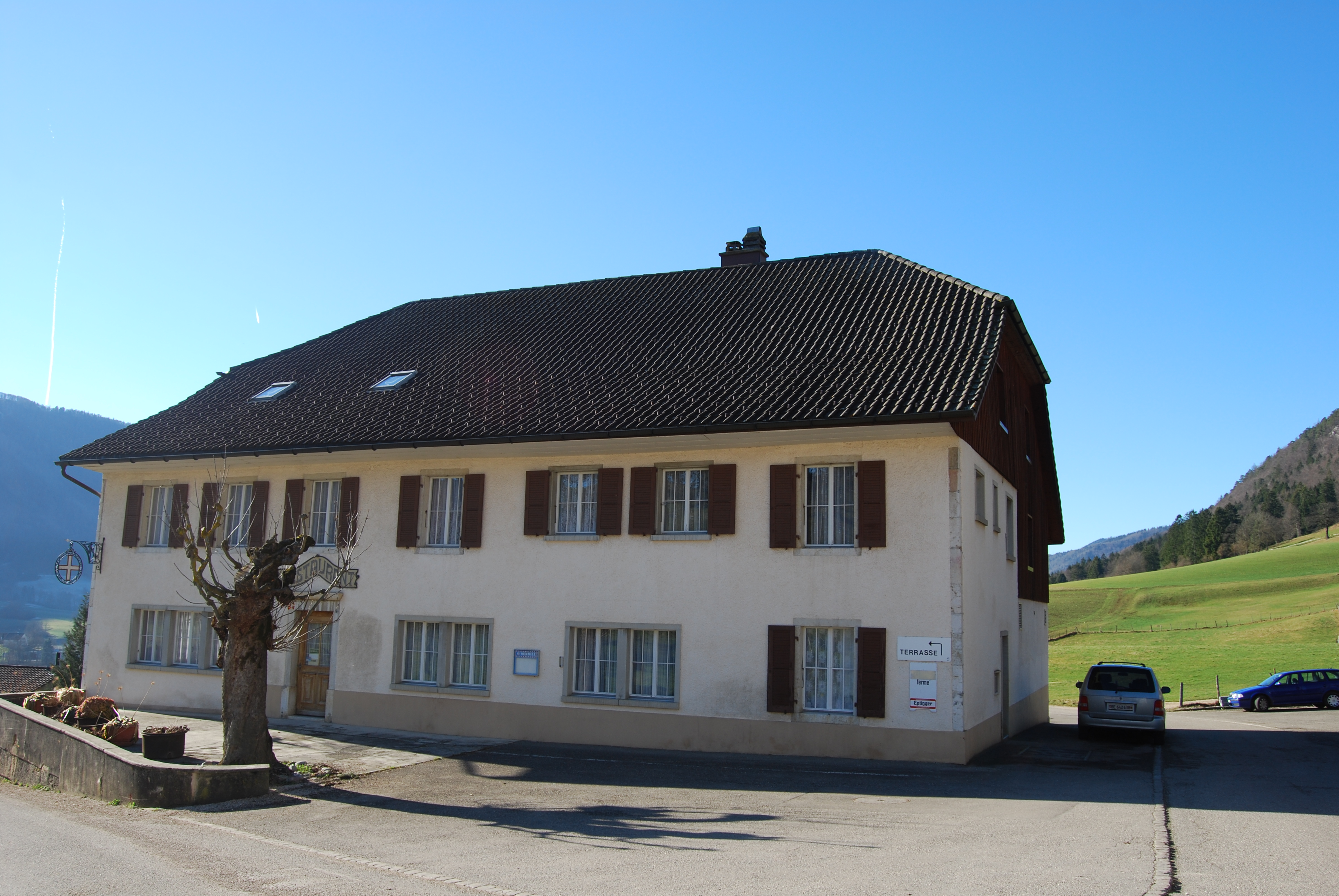 Restaurant Croix-Blanche at Belprahon, canton of Bern, SwitzerlandEsperanto: Restoracio Croix-Blanche (Blanka Kruco) en Belprahon, Kantono Berno, Svislando